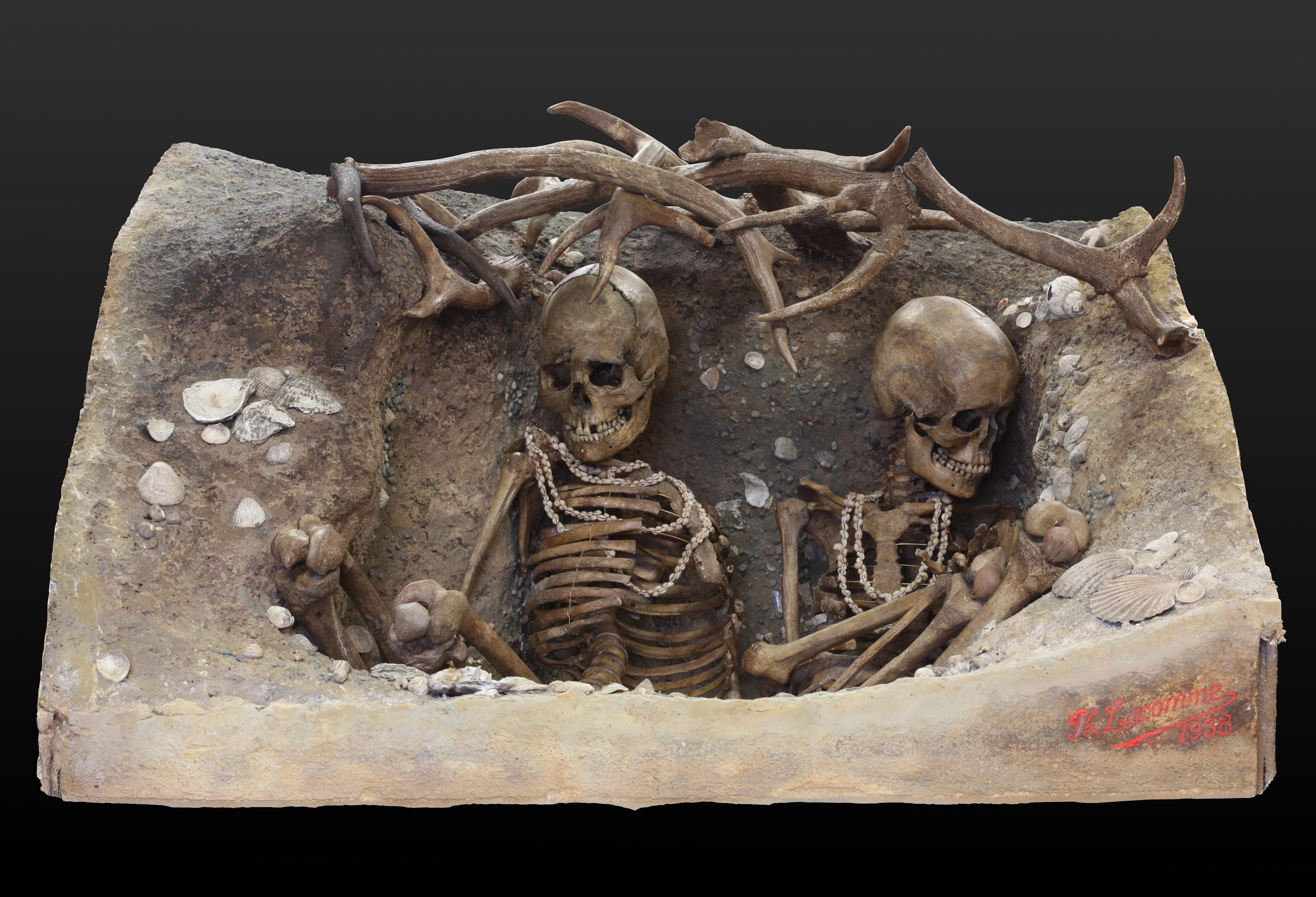 Reconstitution of a prehistoric tumb. Two women in the twenties or early thirties, both featuring traumatic injuries to the skull. One believed to have been buried while still alive. Characteristic floor covered with shellfishes and antler roof.